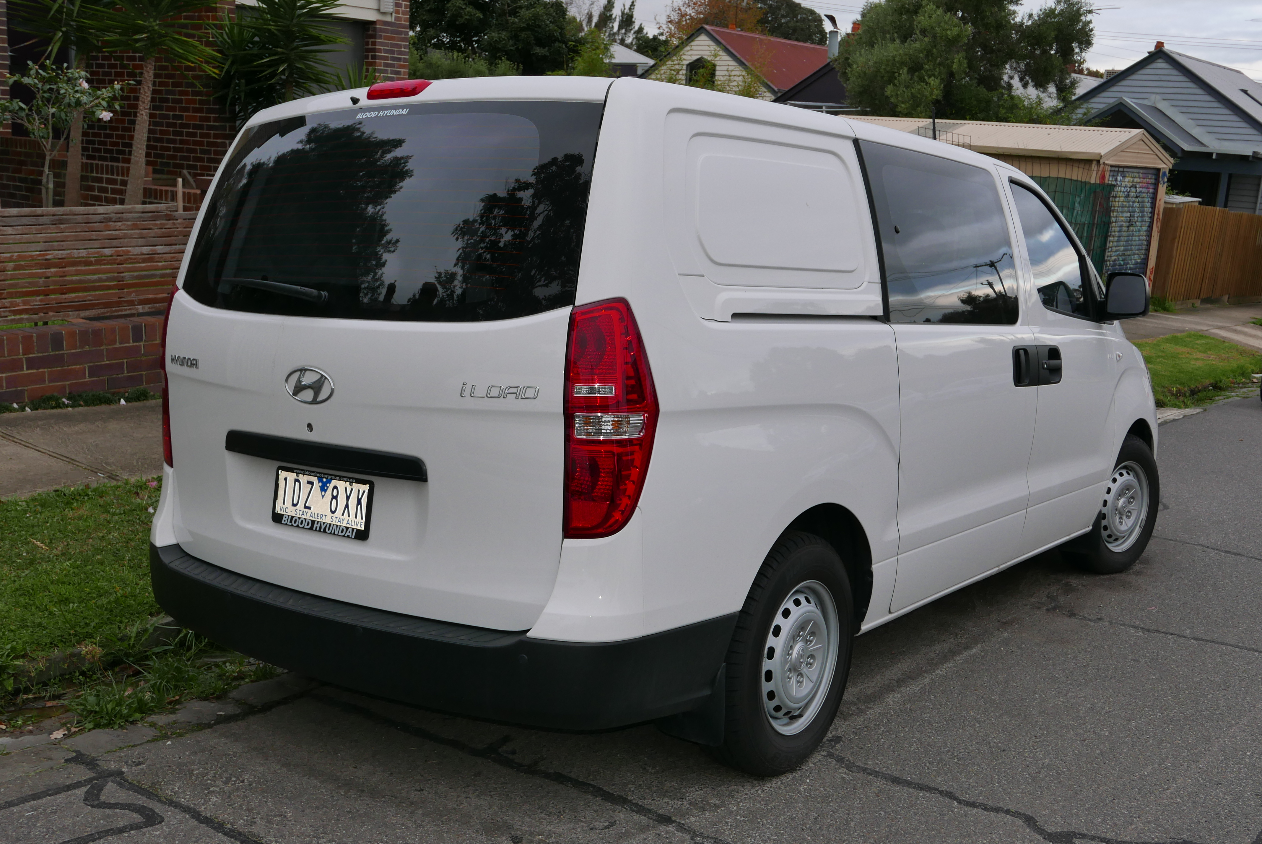 2015 Hyundai iLoad (TQ2-V MY15) crew cab van. Photographed in Northcote, Victoria, Australia. Vehicle registration enquiry resultsJurisdictionVictoriaRegistration1DZ8XKChassis codeKMFWBX7KMFU713123Engine codeD4CBF697148Compliance date2015-02Year of manufacture2015